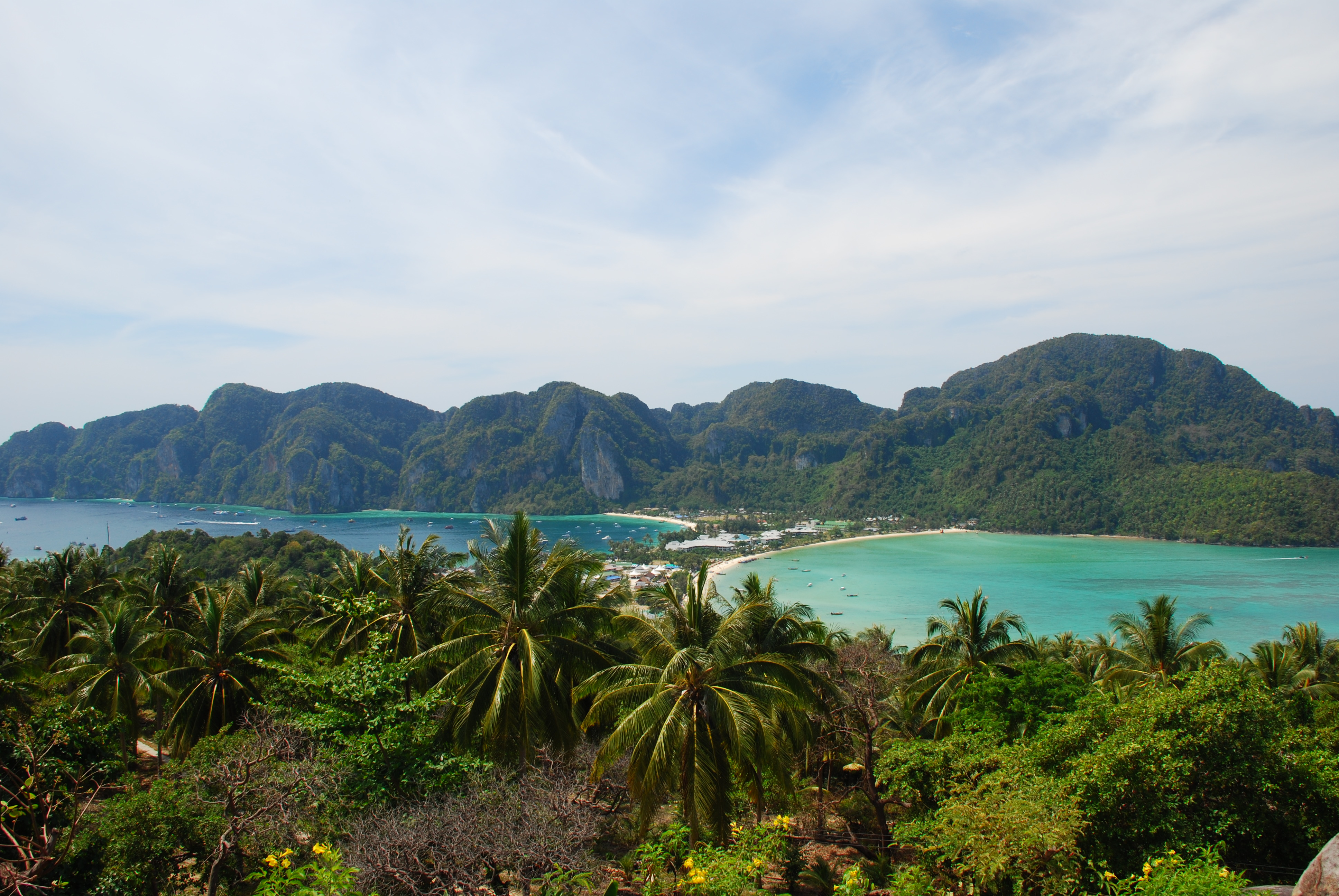 View of Koh Phi Phi Don, Krabi Province, Thailand. Taken from the Lookout Point on the East side of the island.